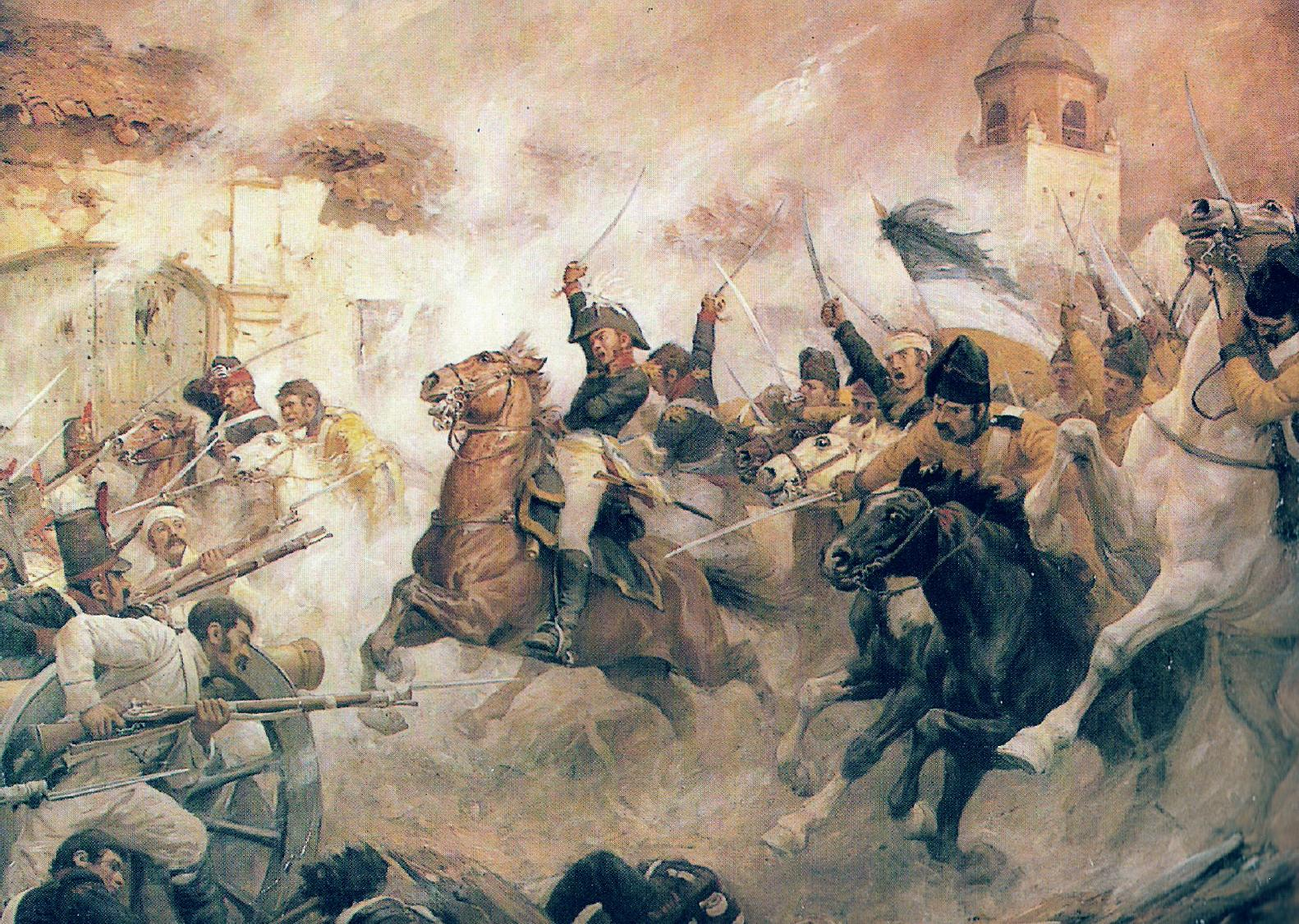 Bernardo O'Higgins leading the Chilean troops in the Battle of Rancagua (October 2, 1814).